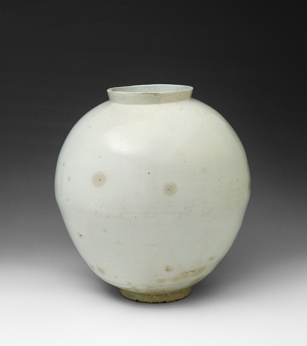 Large white porcelain jar (Dal Hang-ari or moon jar) from the Joseon period of Korea. Bunwon-ri ware.